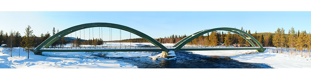 Burmabridge over Pite river in Lappland, Sweden